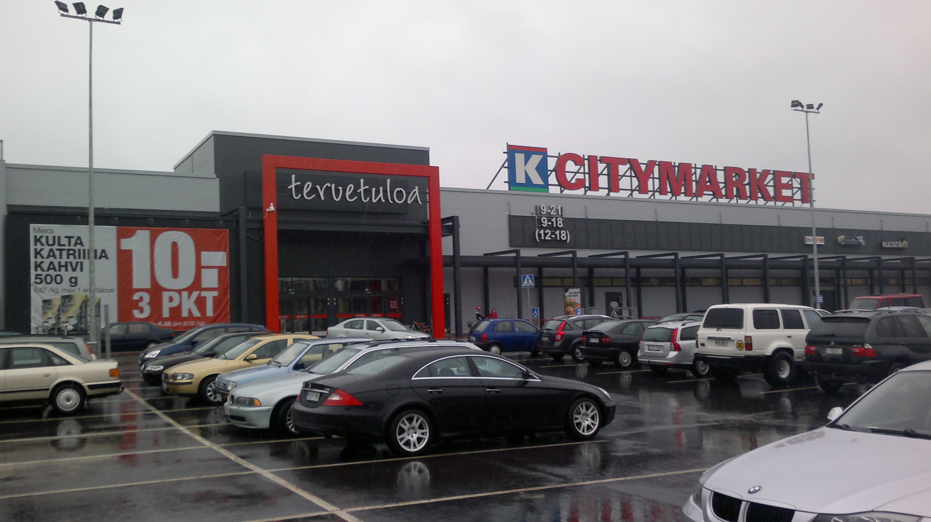 K-citymarket Päivölä in Seinäjoki, Finland